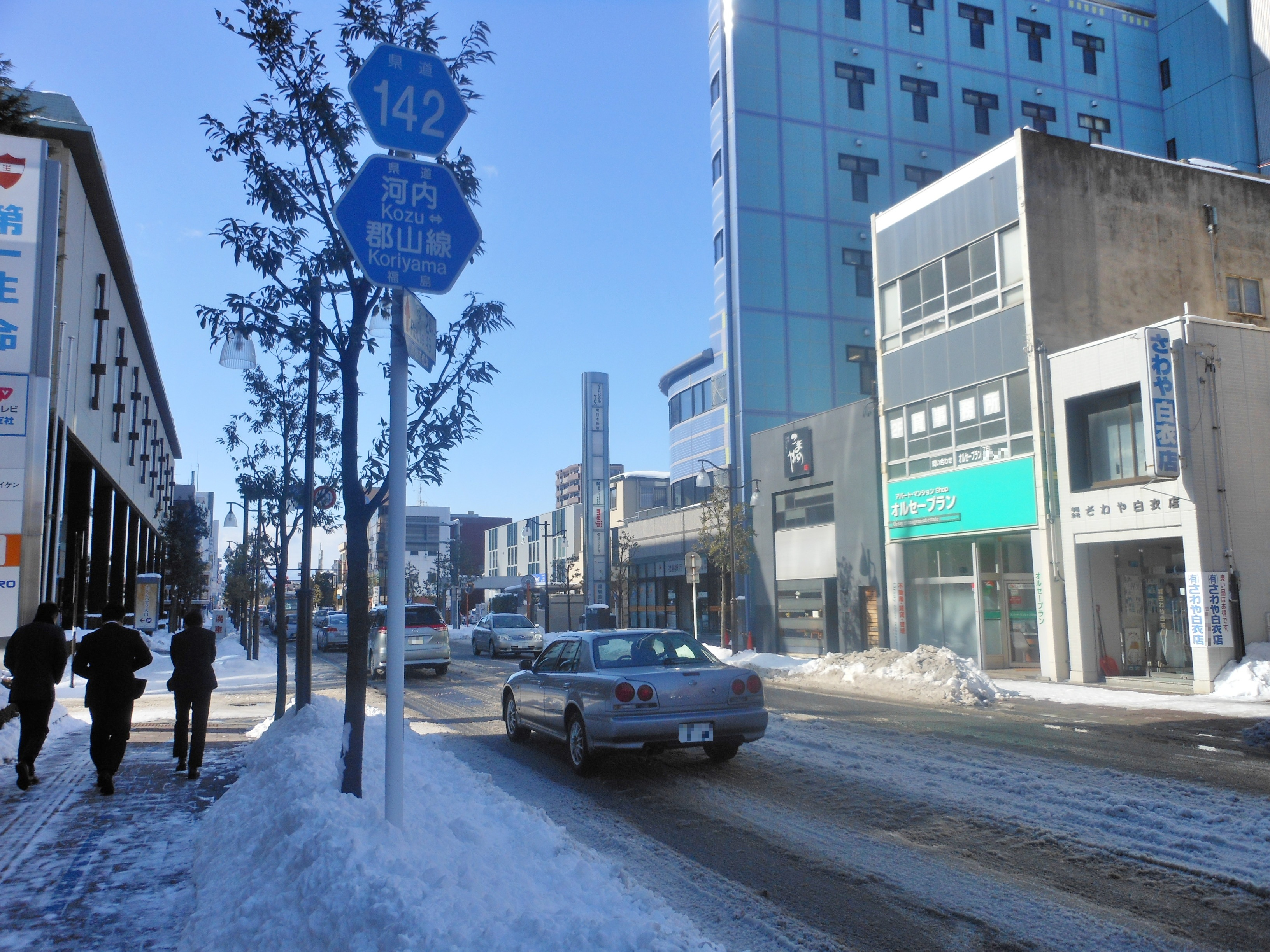 This is a scene of Fukushima prefectural road No.142 Kozu-koriyama line at Toramaru-machi, Koriyama, Fukushima, Japan.